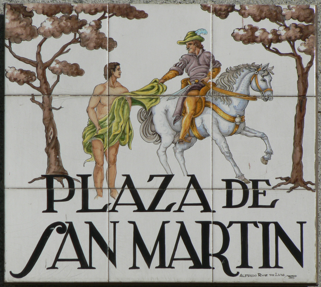 Sign of Plaza de San Martín (square, Centro district) in Madrid (Spain).